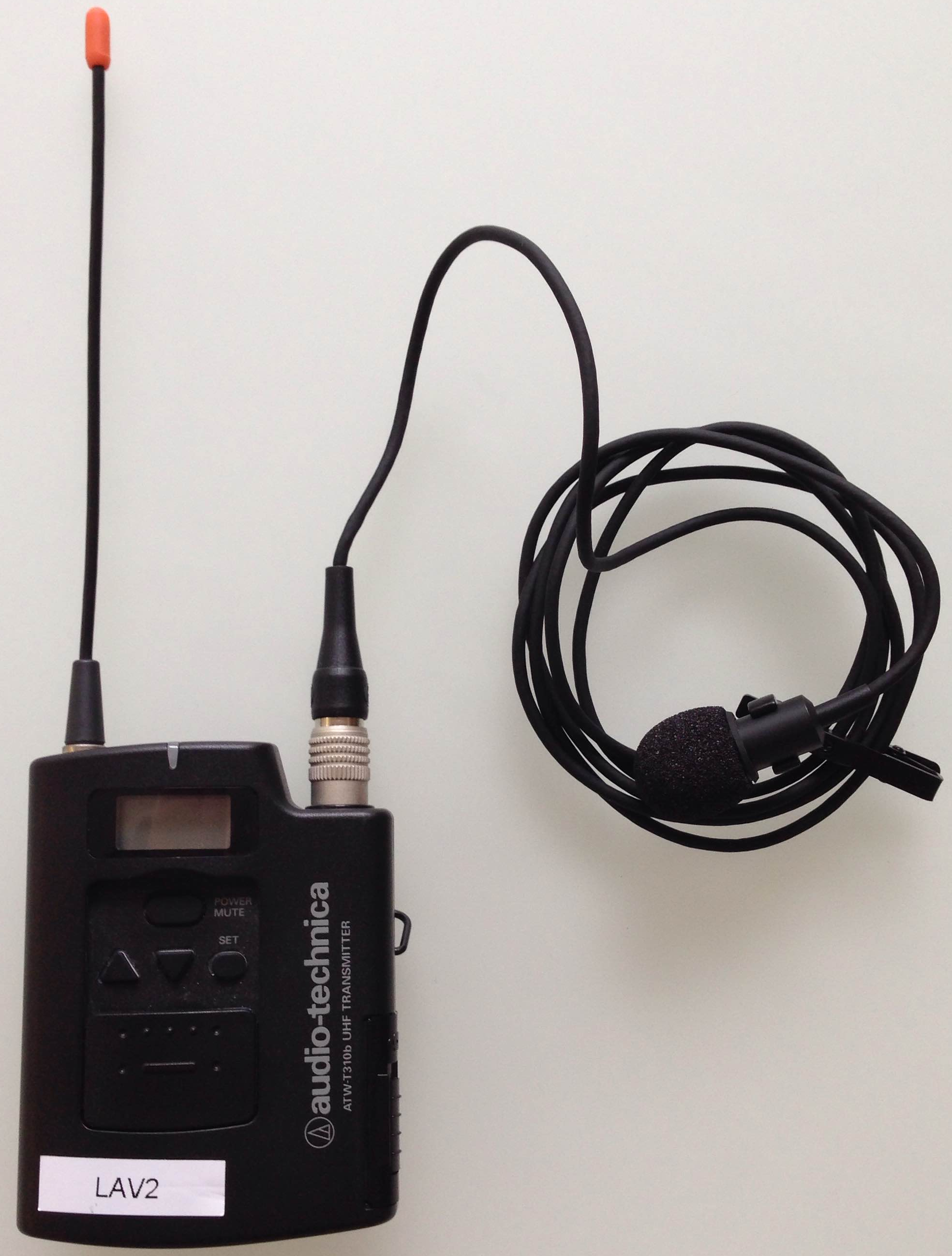 Audio Technica lavalier microphone